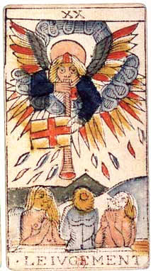 An original card from the tarot deck of Jean Dodal of Lyon, a classic Tarot of Marseilles deck which dates from 1701-1715.